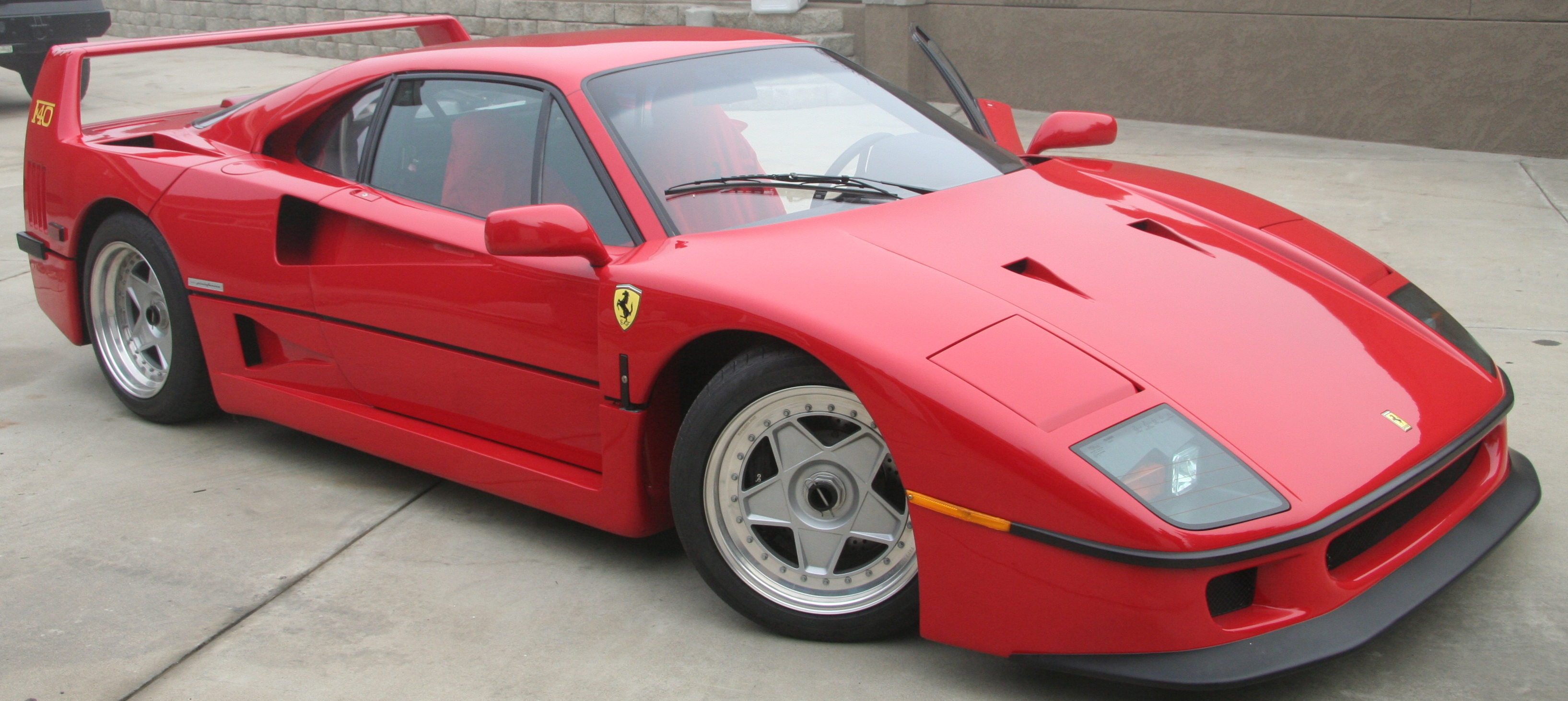 Side View